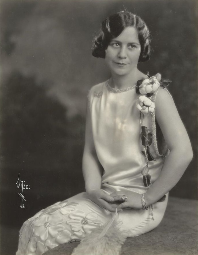 Portrait of American actress Lillian Albertson (1881–1962) by American photographer Albert Witzel (Witzel Studios, L.A.)